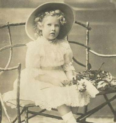 Lady Katherine Brandram, Princess of Greece and Denmark